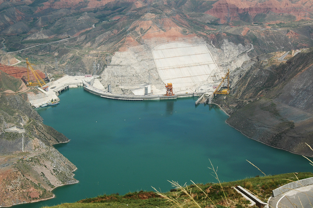 Lijiaxia dam and Hydropower Station